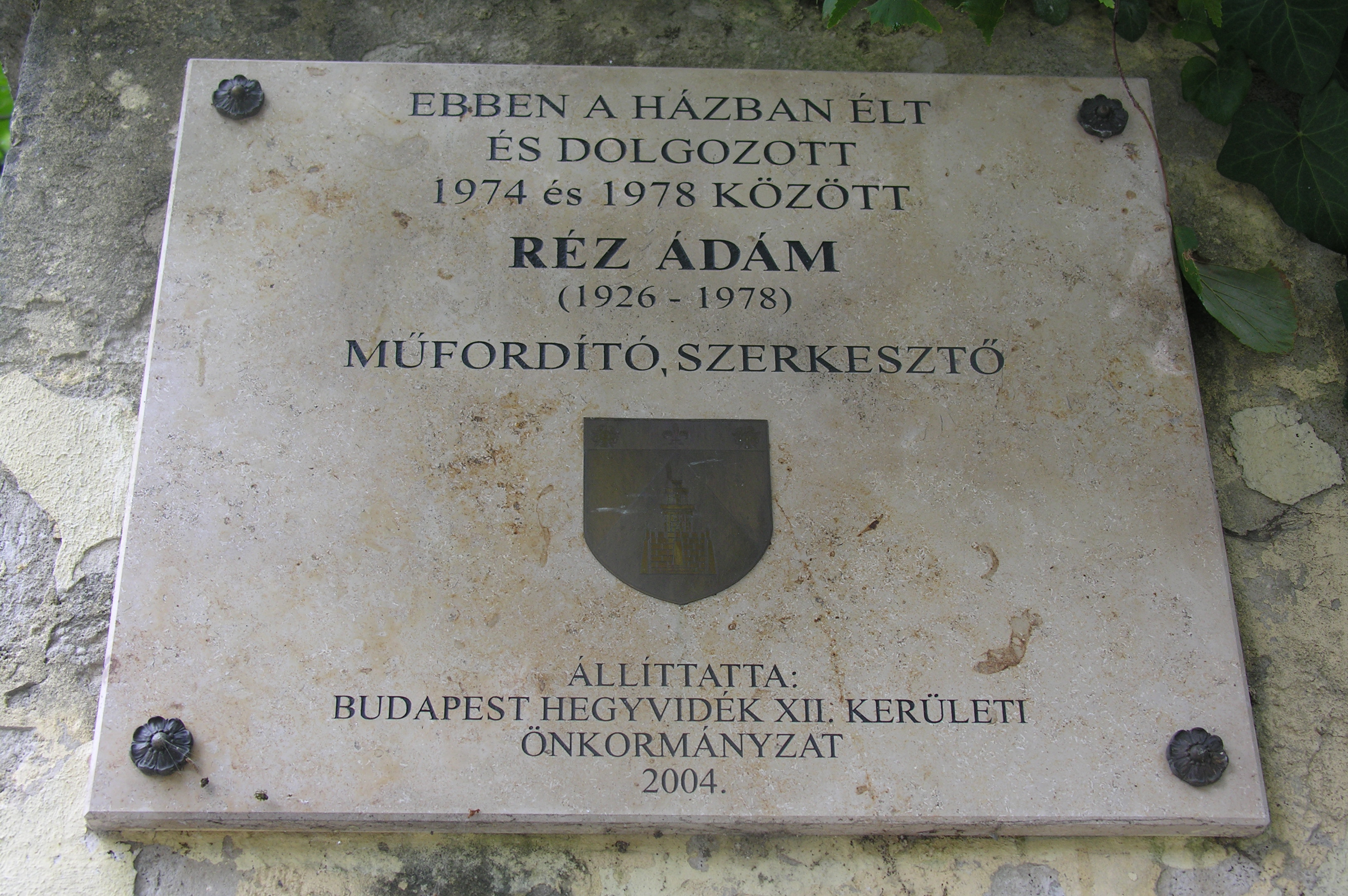 Commemorative plaque of Ádám Réz in Budapest District XII, Varázs Street No 6